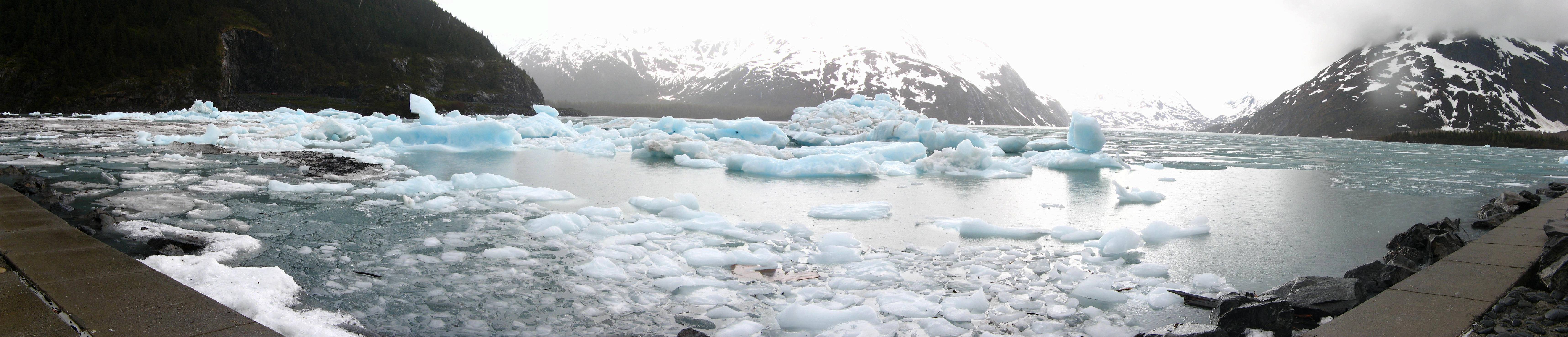 Taken at Portage Glacier Visitor Center, Alaska, in May 2007.